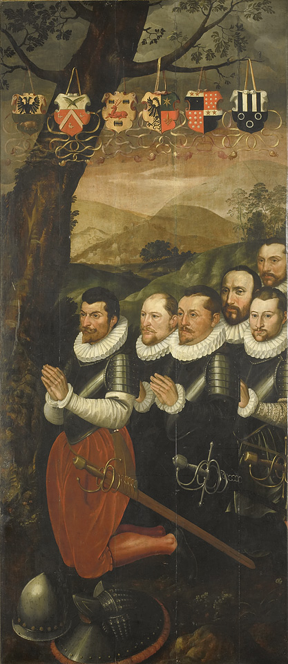 Outer right wing of an altarpiece.